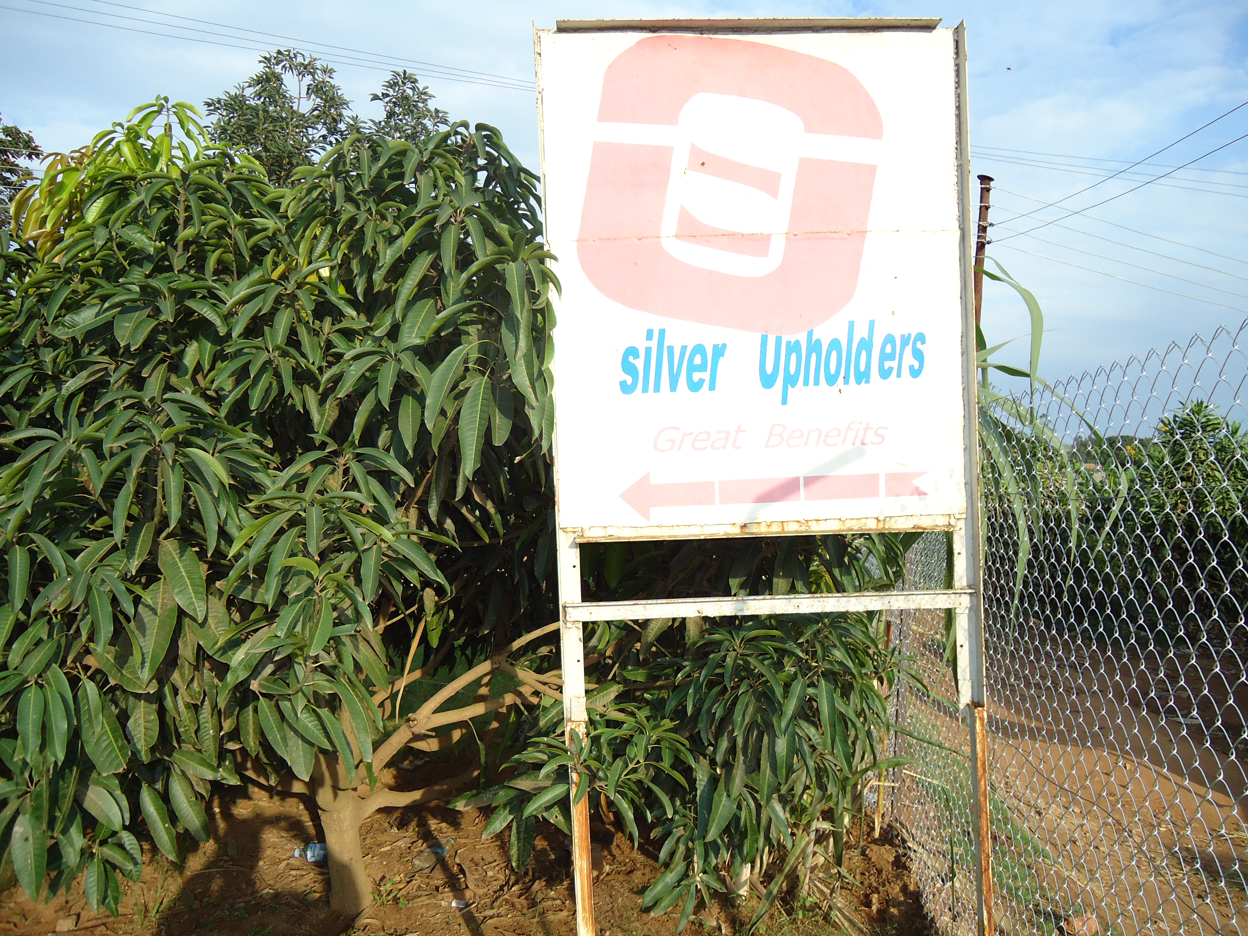 This is the entrance at the Maganjo Branch